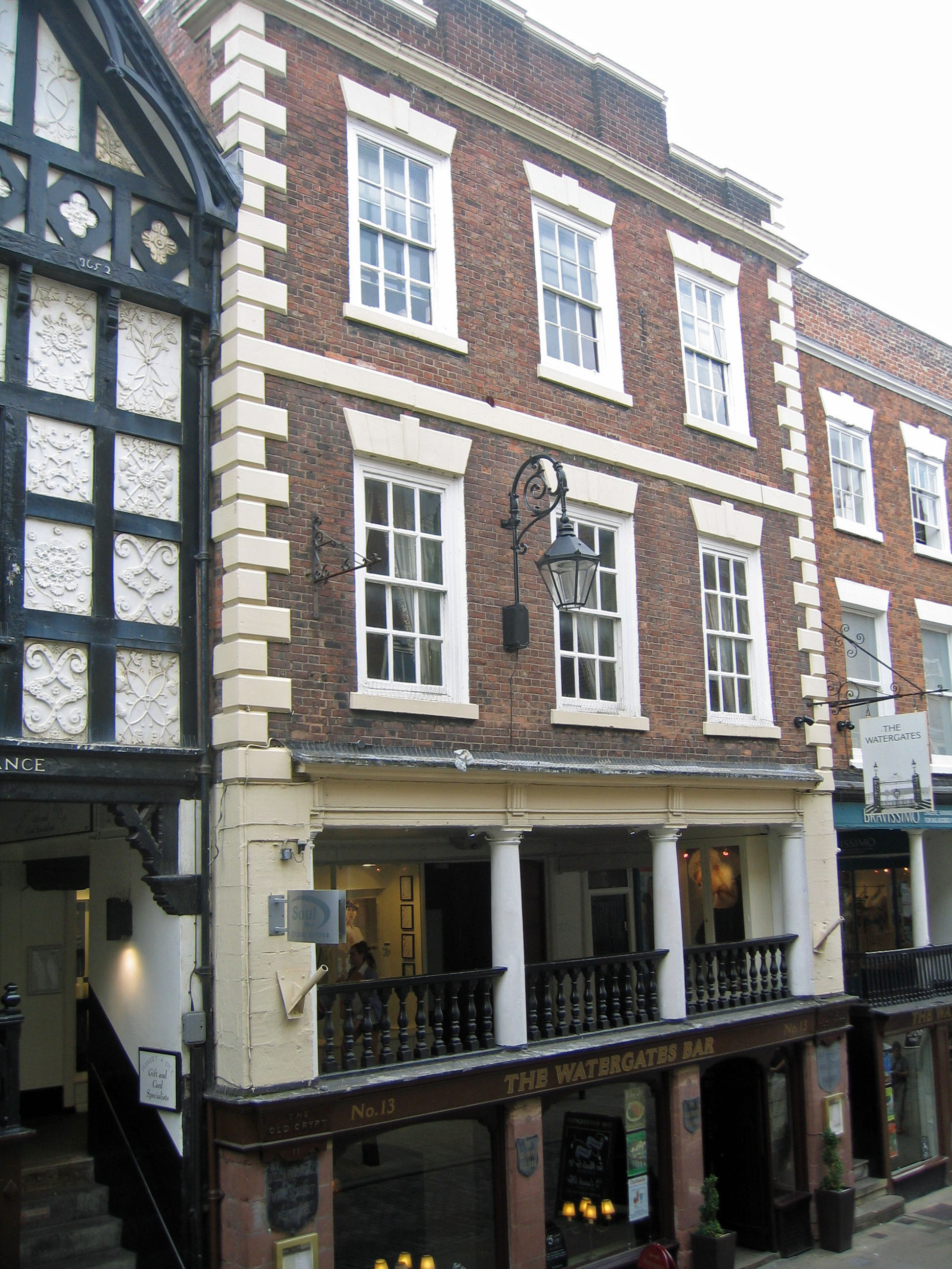 Photograph of the Old Crypt, Watergate Street, Chester, Cheshire, England